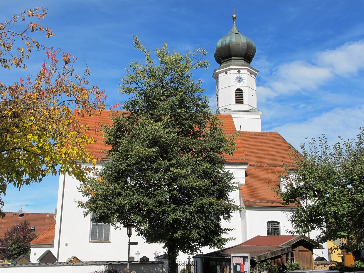 Ohlstadt, Church St.Laurentiusl